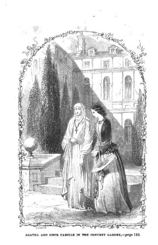 Book illustration from Quicksands on Foreign Shores (1854) by Elizabeth Whately.